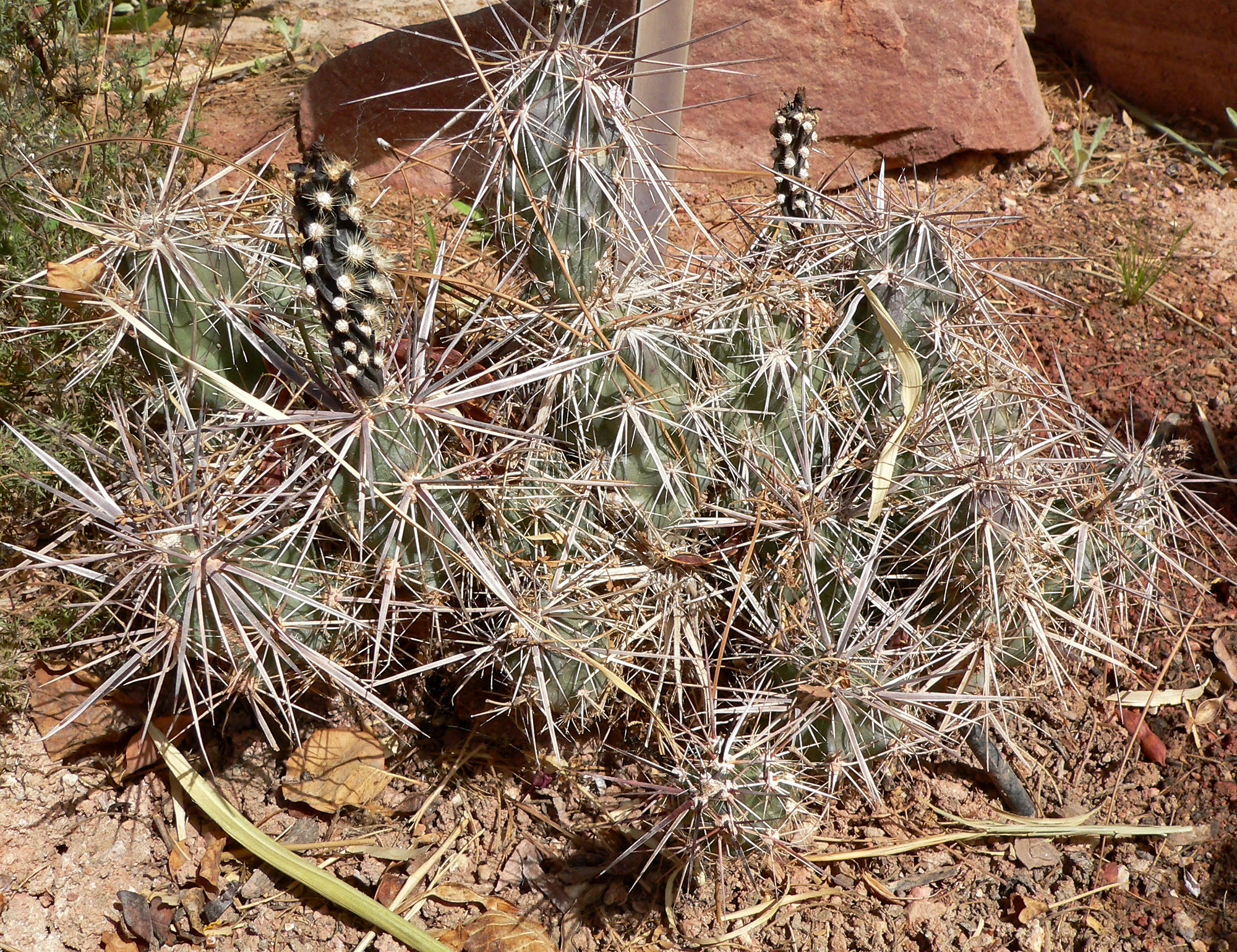 Grusonia emoryi at the Springs Preserve garden, Las Vegas, Nevada